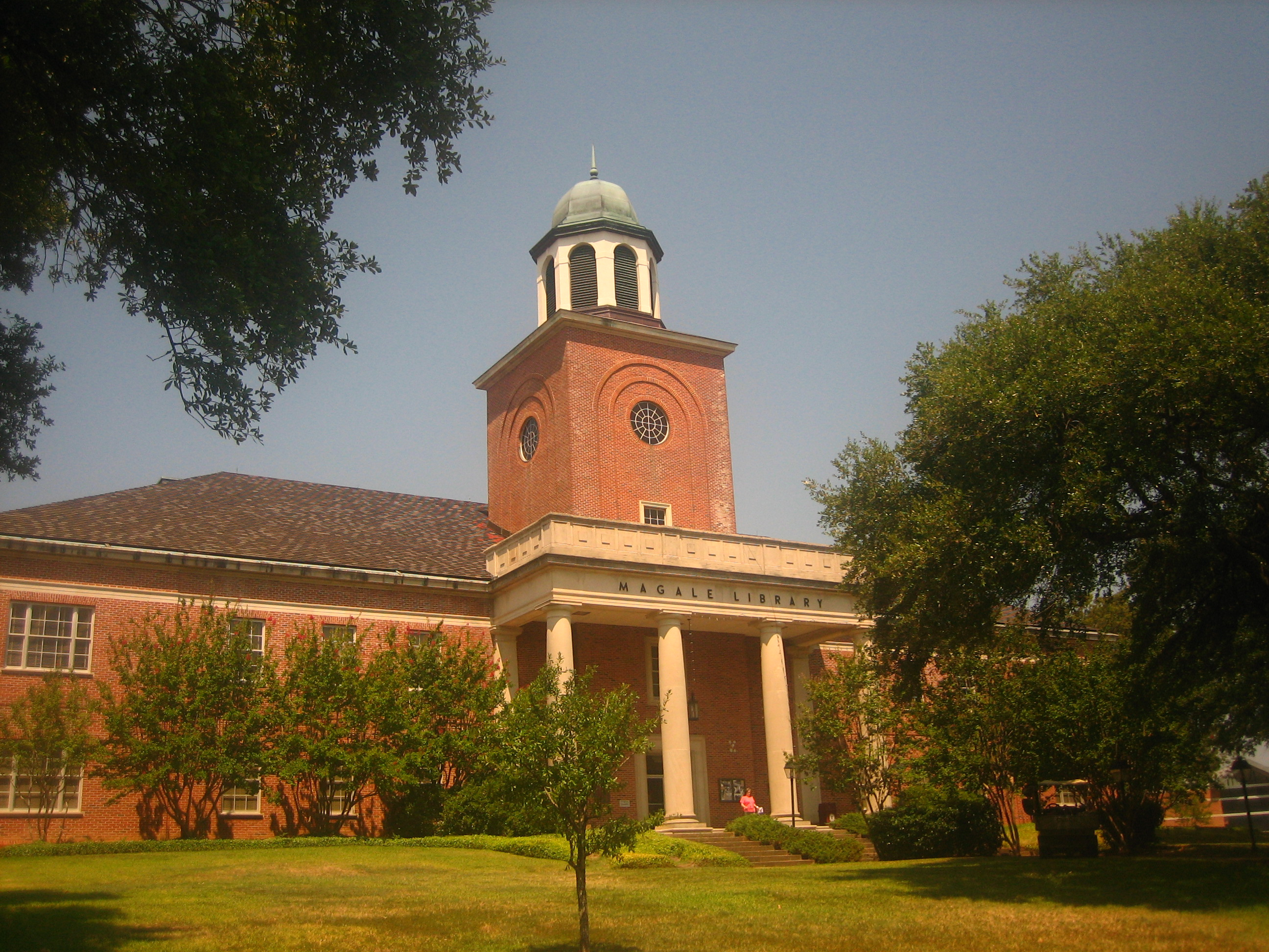 I took photo on Aug. 4, 2008.Billy Hathorn (talk) 02:21, 23 August 2008 (UTC)